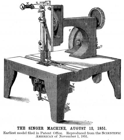 The Singer machine, August 12, 1851. Earliest model filed in Patent Office. Reproduced from Scientific American of November 1, 1851.